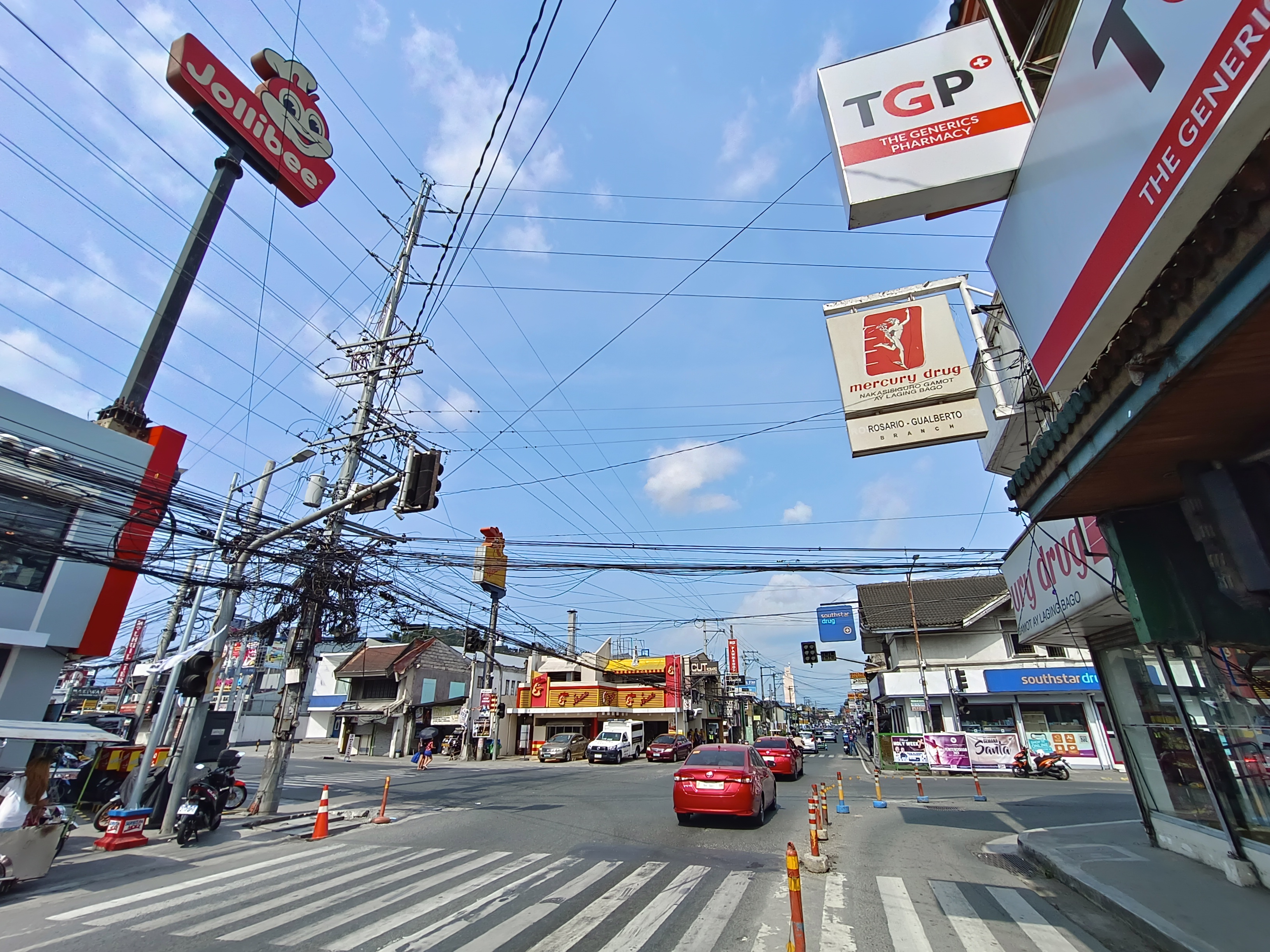 Aerial view of downtown Rosario, Batangas.